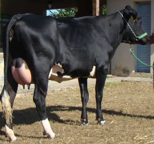 Cow Girolando 5/8 of blood